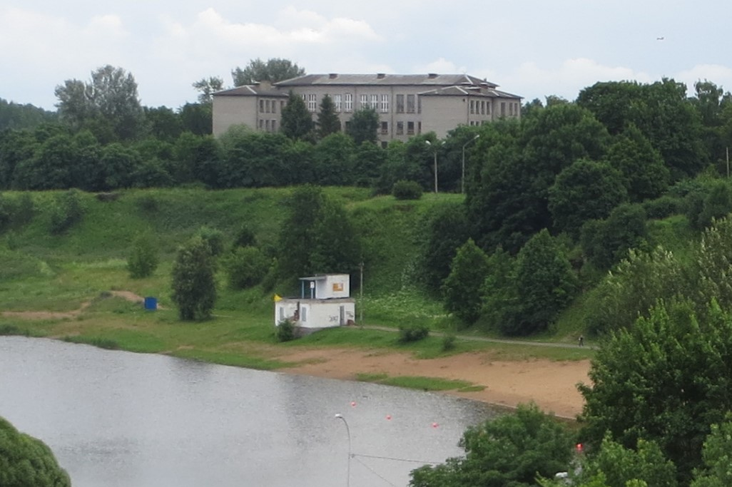 Narva School nr 7 in 2013